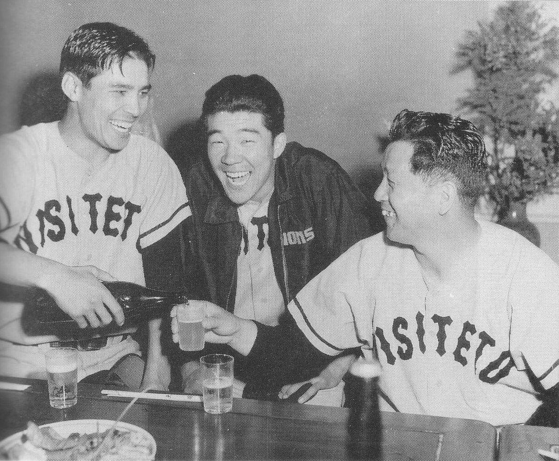 Yasumitsu Toyoda, Kazuhisa Inao, Osamu Mihara (Nishitetsu Lions manager). 1956.